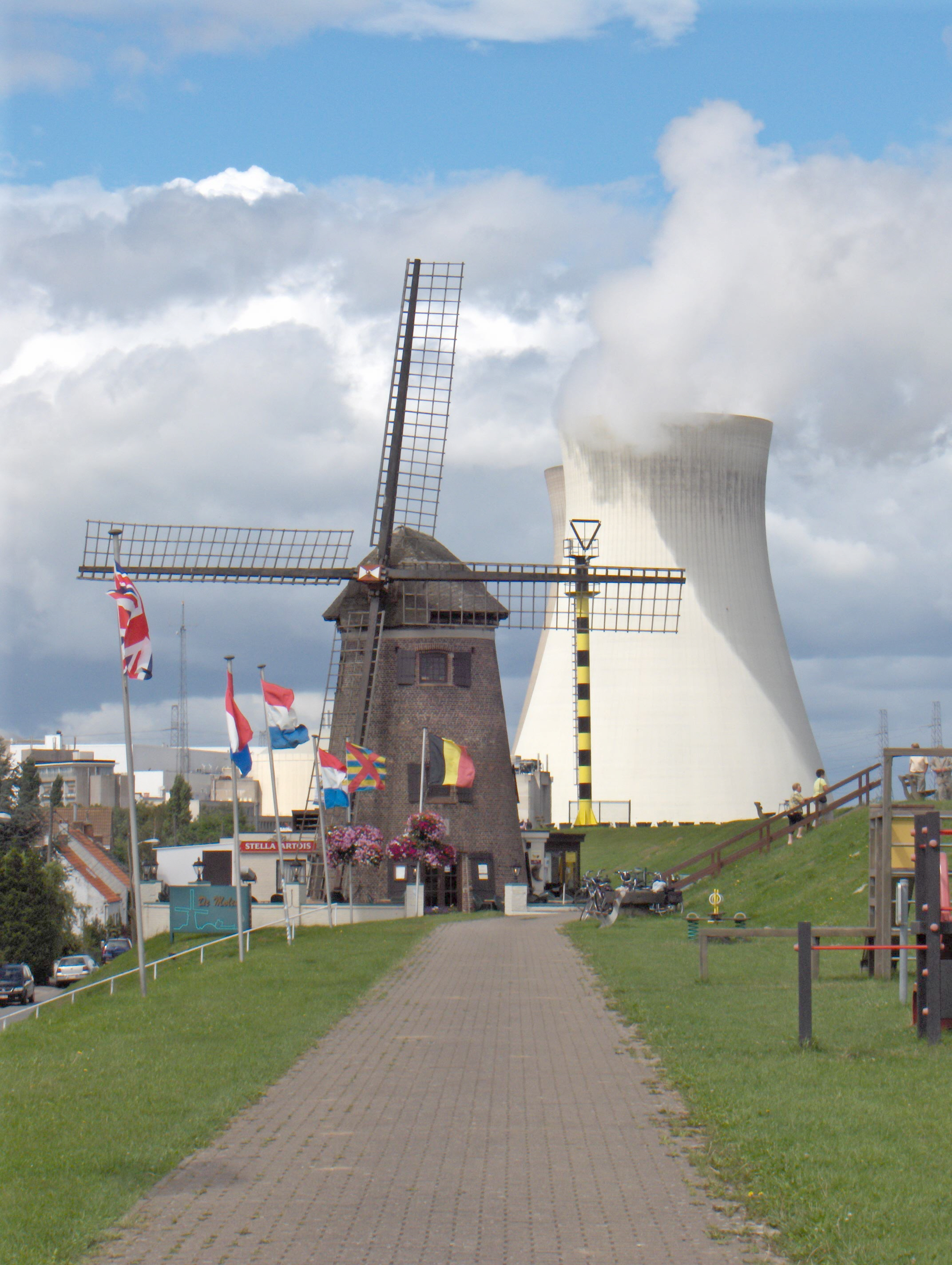 Doel (Belgium), dyke of the river Scheldt, windmill from 1614 and nuclear power plant